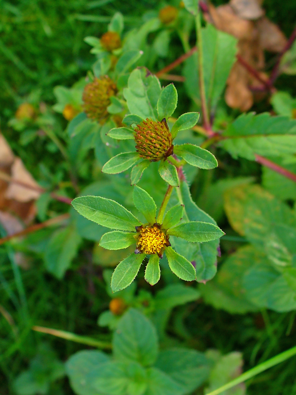 Bidens tripartita, Asteraceae, Three-lobe Beggarticks, Three-part Beggarticks, Leafy-bracted Beggarticks, Trifid Bur-marigold, inflorescences; Karlsruhe, Germany.